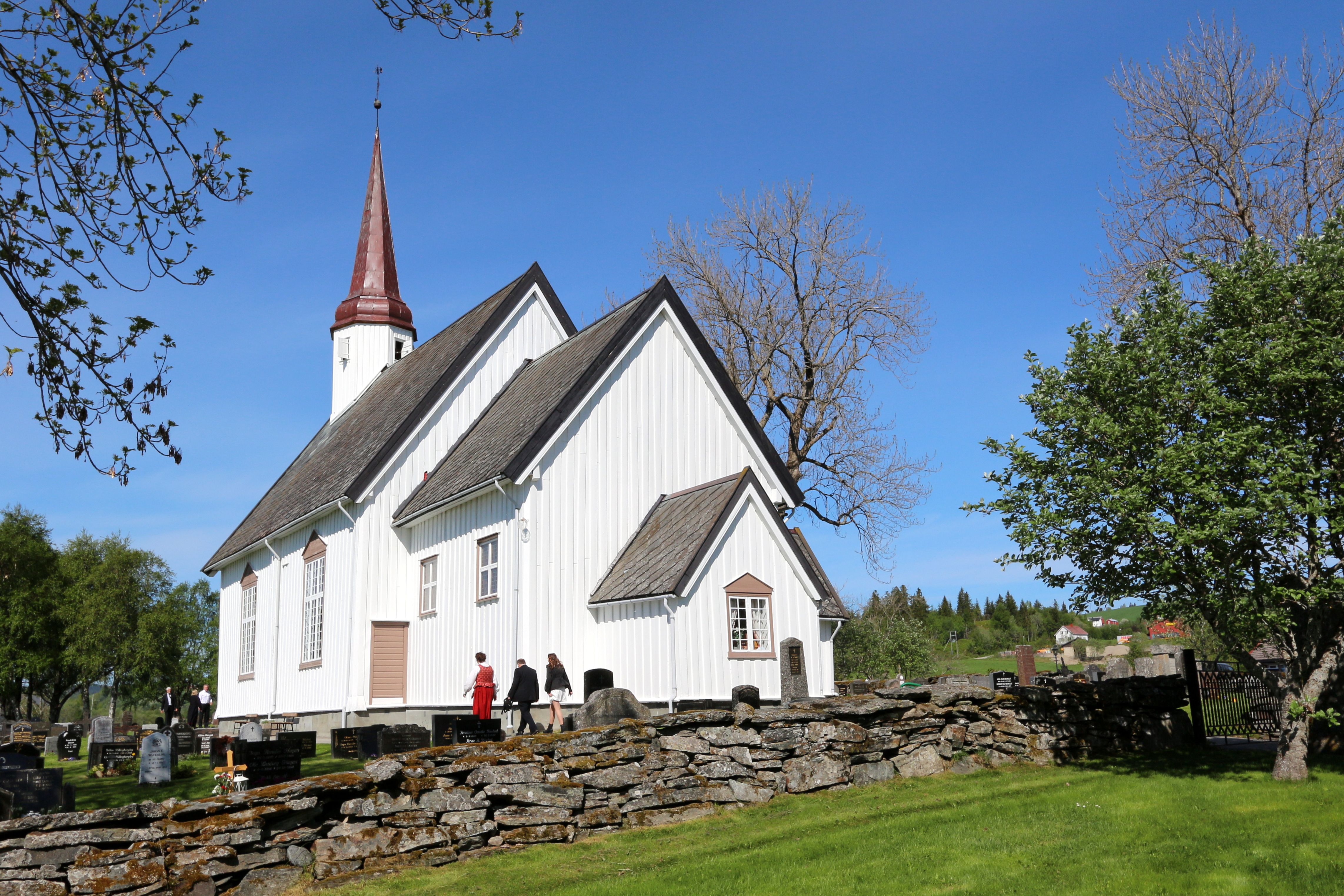 Leksvik church seen from east.